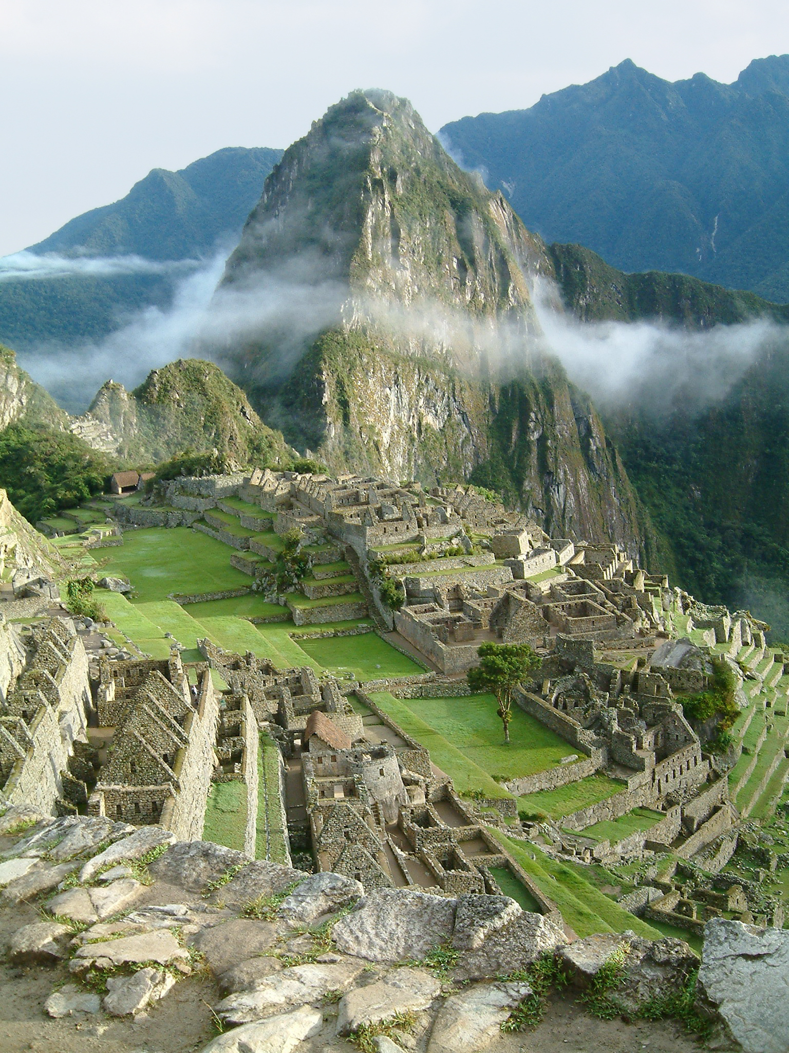 Allard Schmidt: "This picture was taken at sunrise, after hiking ahead of the group towards Machu Picchu I found Machu Picchu empty, Wayne Pichu was covered in clouds. After waiting 10 minutes the clouds dissolved beautifully resulting in this picture. Unfortunately, the moment the thin clouds covered Wayne Pichu was very short, there was no time to change the camera light exposure settings in order to correct the overexposure."